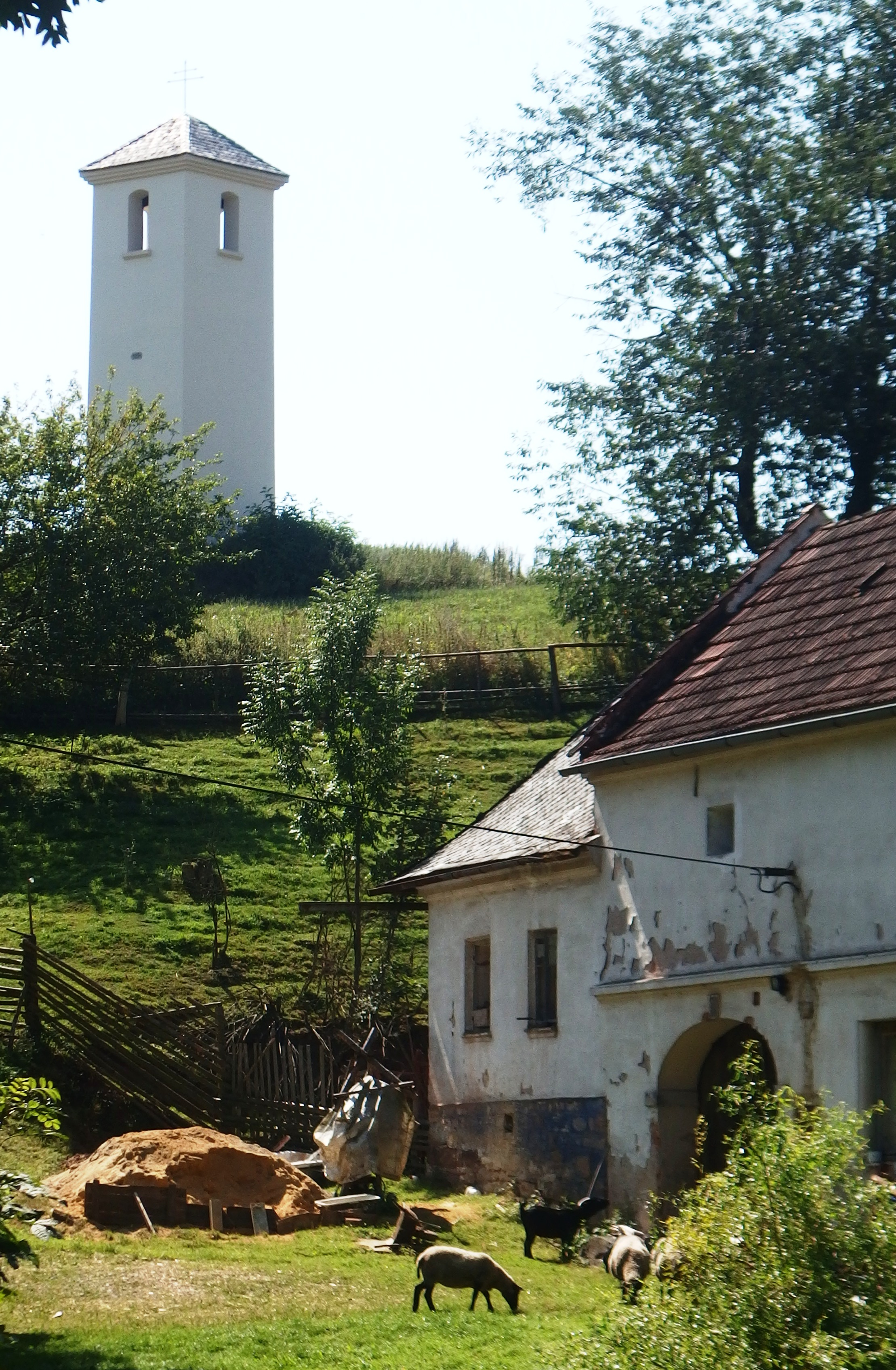 Městečko Trnávka, Svitavy District, Czech Republic, part Pacov.